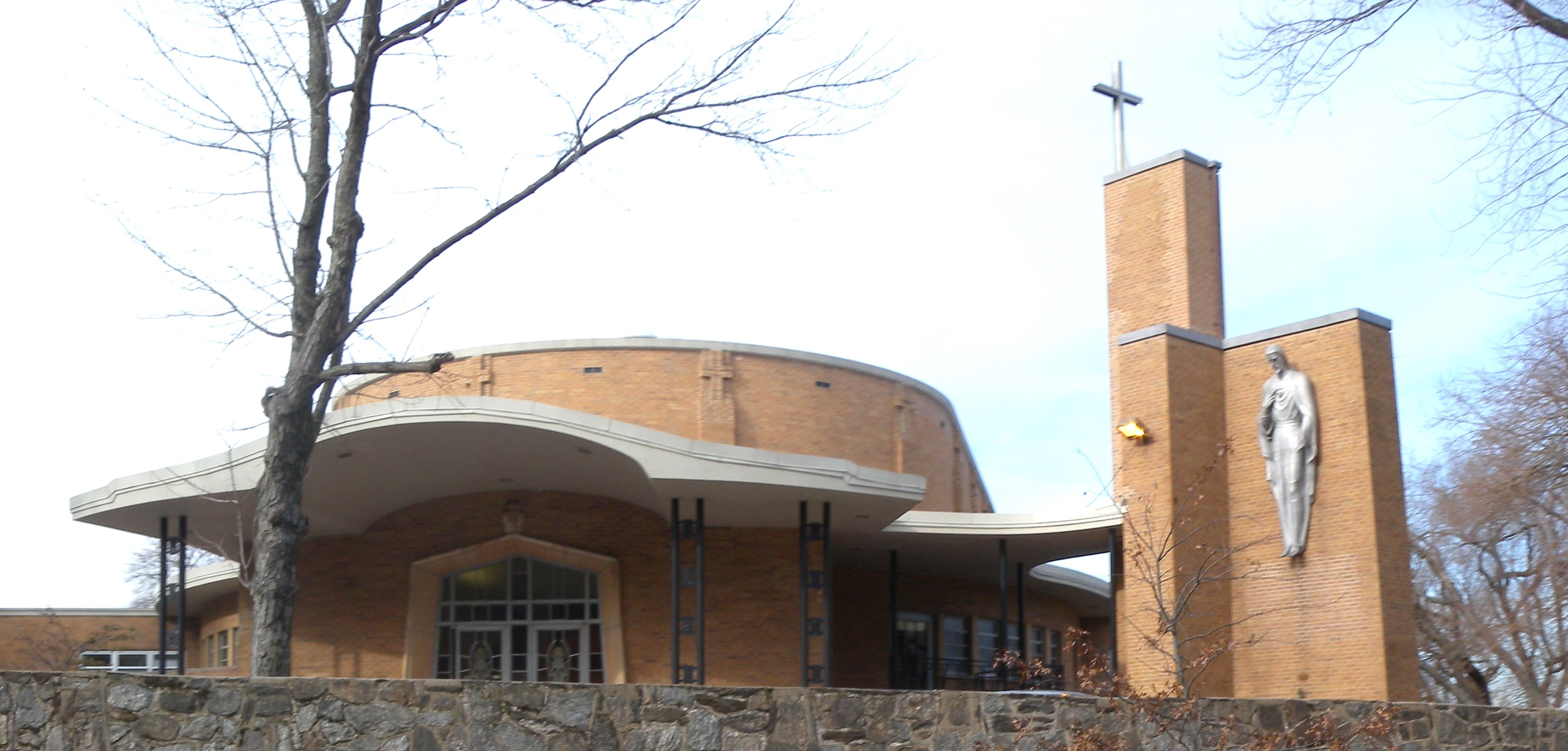 Cropped version.